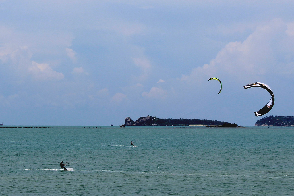 Kite Surfing at Koh Samui, Thailand